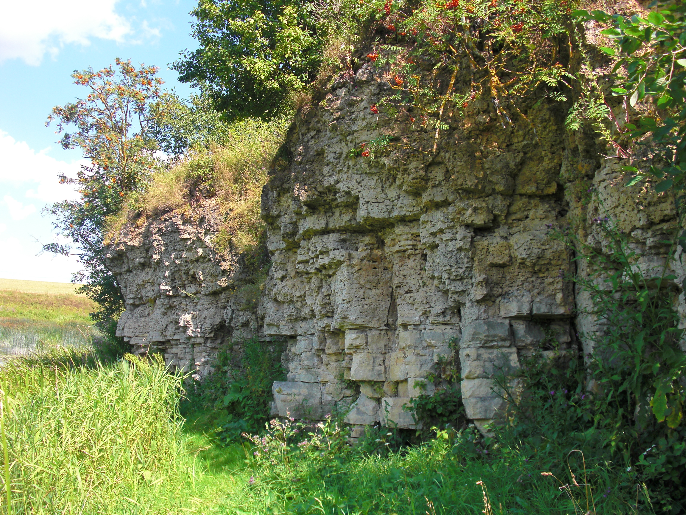 Mūša River outcrop in Stipinai, Pasvalys district, Lithuania